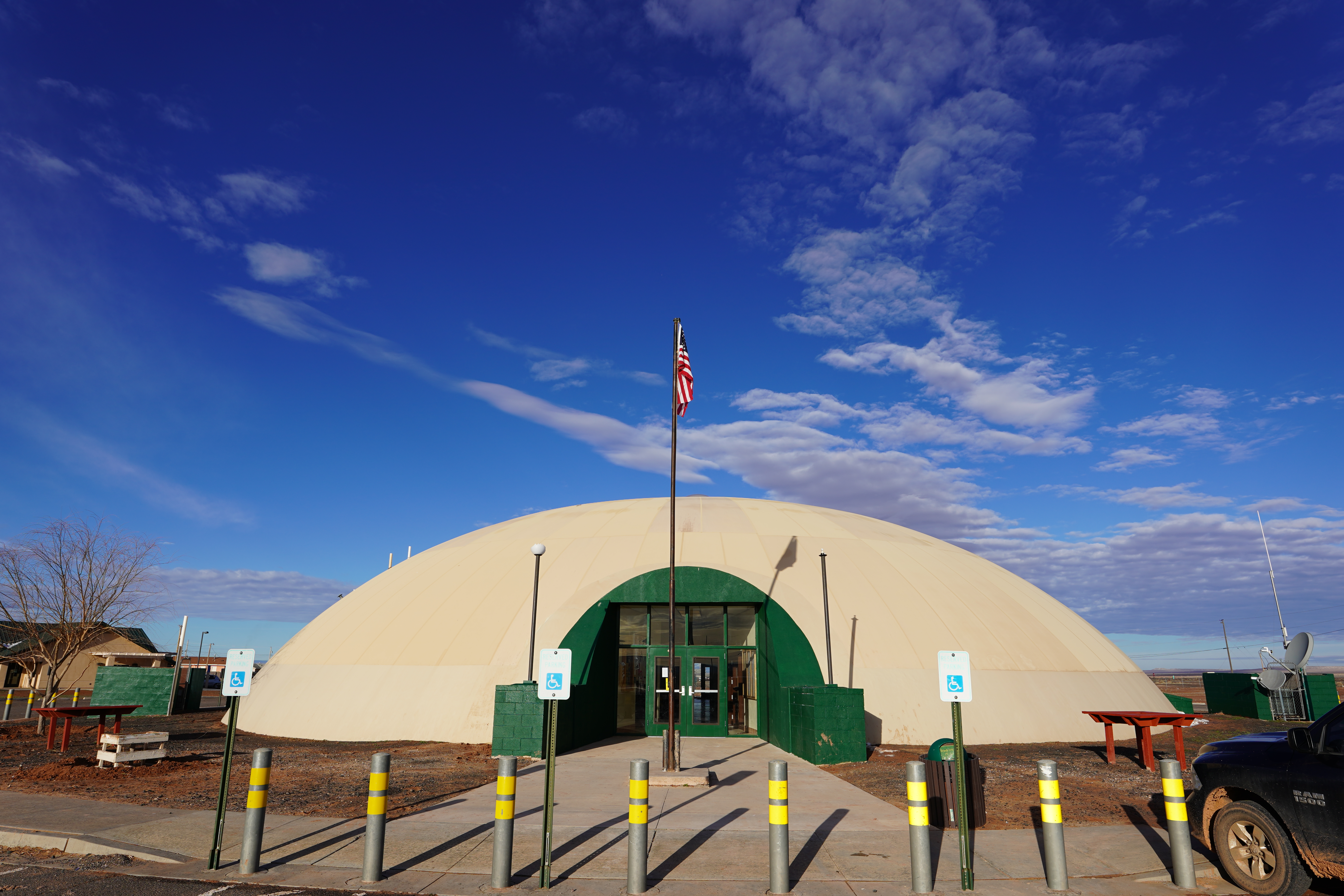 The photograph is of the east face of the Tsidii To’ii Chapter House. The photograph was taken in the morning at 2019-02-27T15:14:39Z.